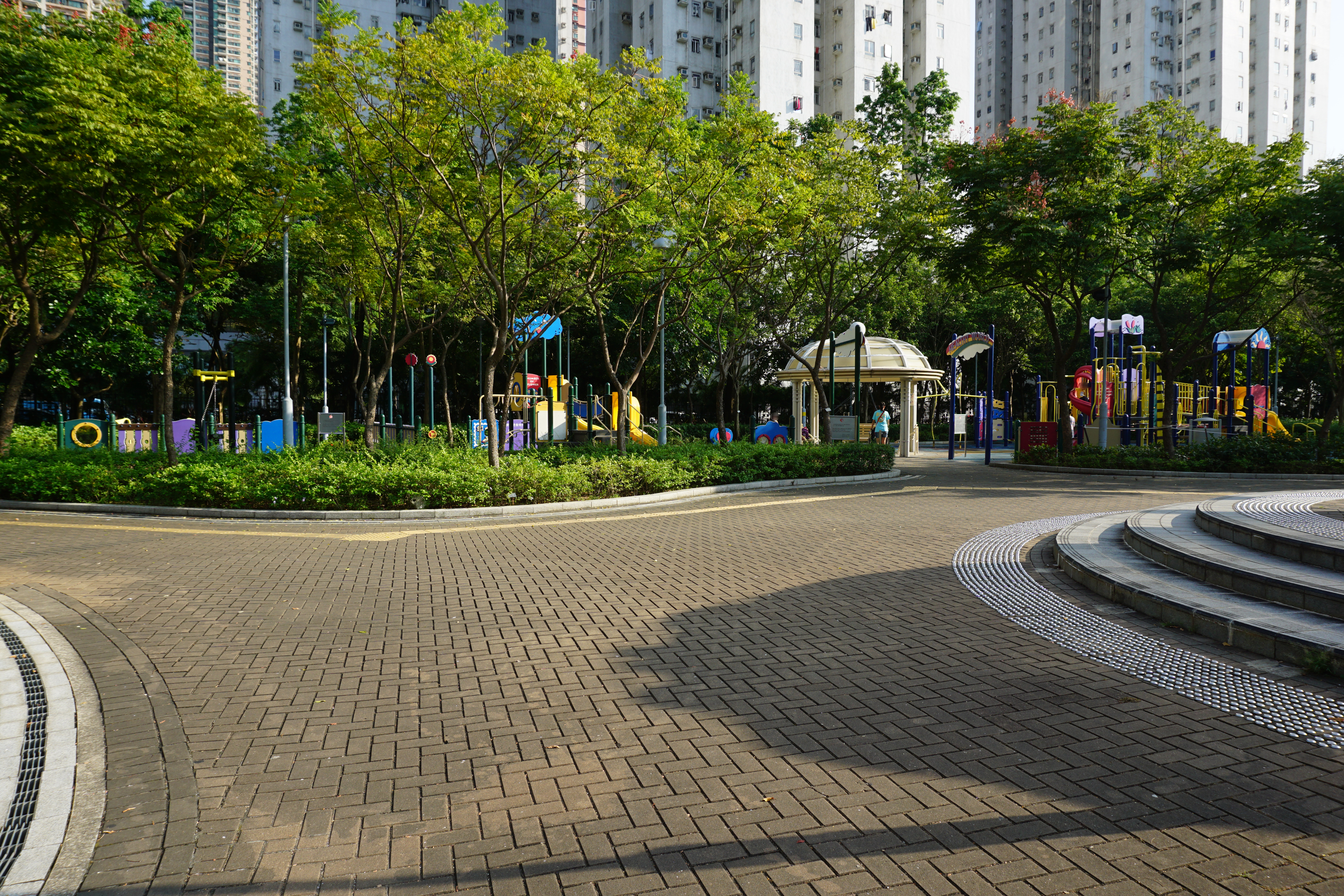 Sheung Ning Playground in Hang Hau, Hong Kong.